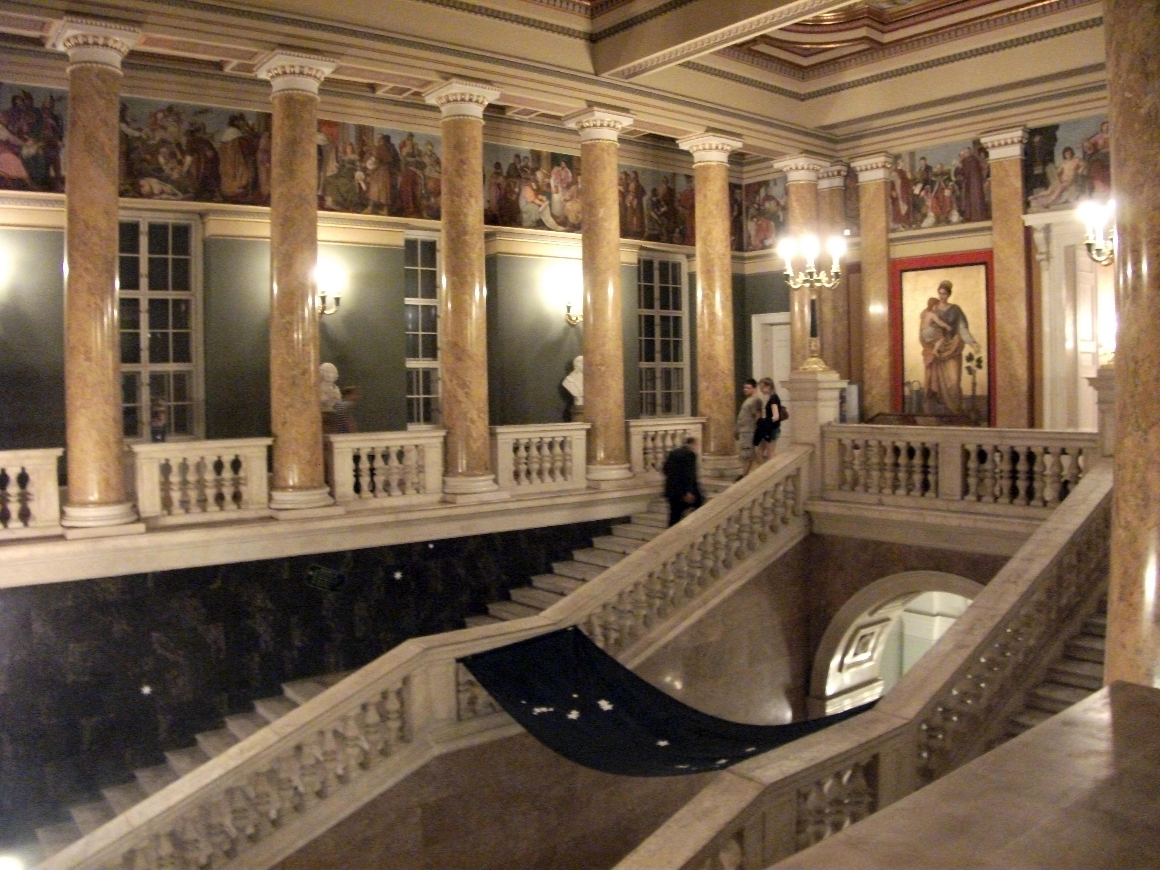 Hungarian National Museum Native nameMagyar Nemzeti MúzeumLocationBudapest, HungaryCoordinates47° 29′ 28″ N, 19° 03′ 46″ E Established1802WebsiteHungarian National MuseumAuthority control VIAF: 159271424 GND: 41431-1 SUDOC: 028327314 BNF: 123022616